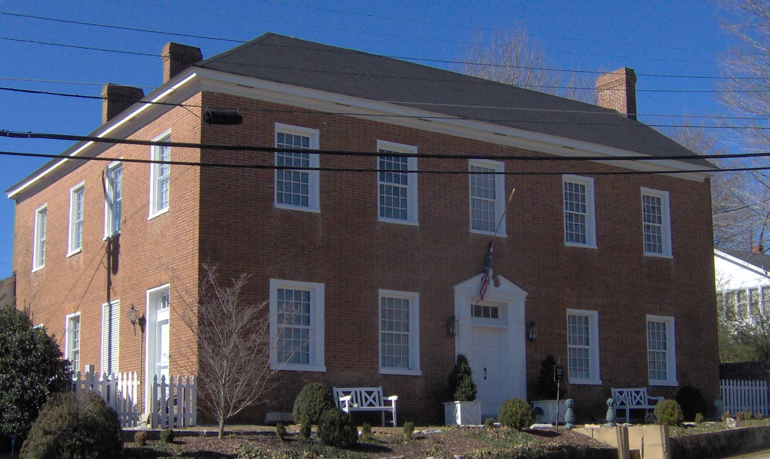 The Voorhies-James House in Charlotte, Tennessee, in the southeastern United States. The house was built by Captain William James in 1806. It was one of the few major structures in Charlotte to survive a tornado that destroyed much of the town in 1830. The house is now part of the Charlotte Courthouse Square Historic District, which was added to the U.S. National Register of Historic Places as a historic district in 1977.